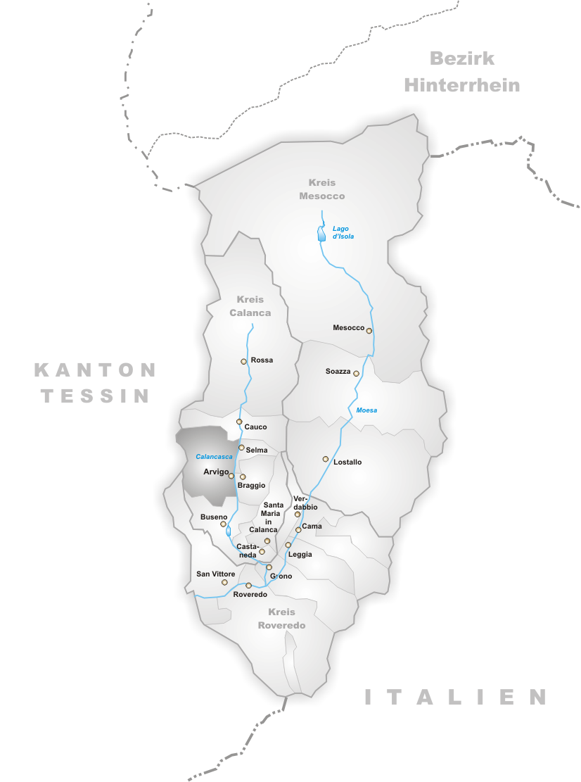 Municipality Arvigo